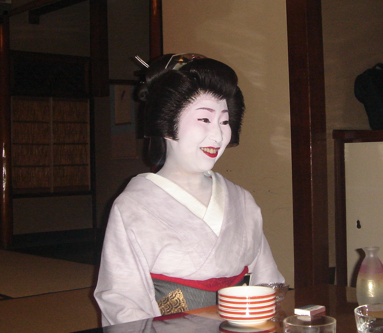 Gion former geisha Ichisuzu (of Nakagishi okiya, Gion Kôbu) at ozashiki.